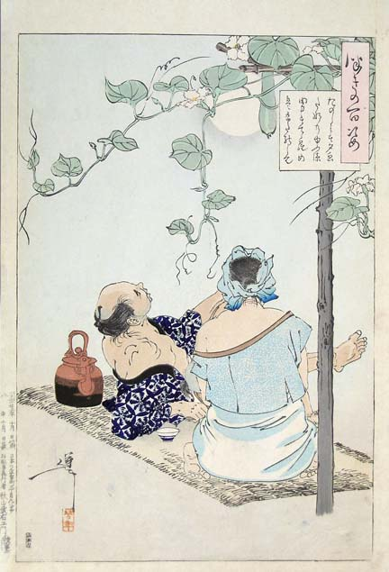 A country couple enjoys the moonlight with their infant son